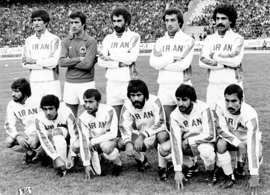 Iran's squad playing in '78 World Cup qualification match against South Korea in Teheran on Nov 11, 1977